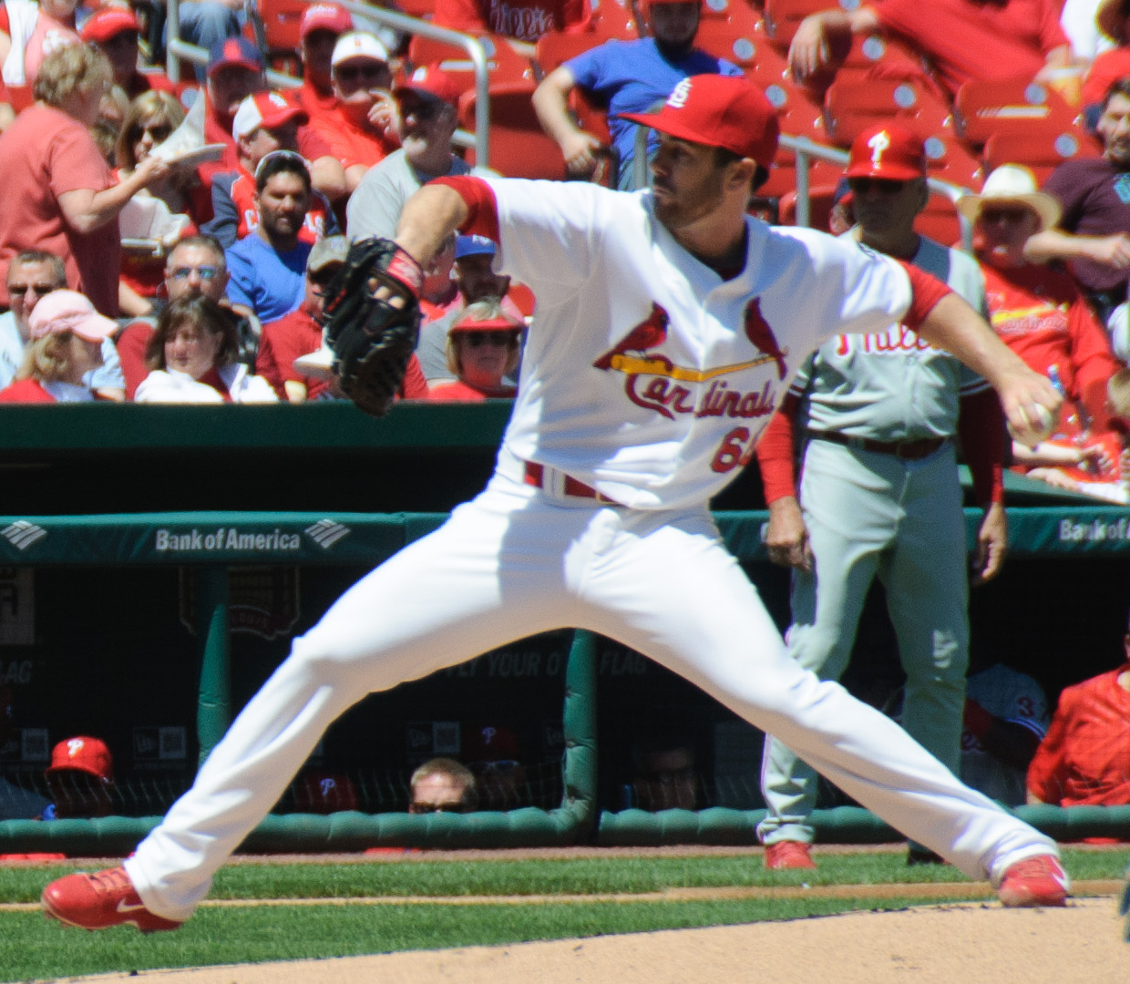 Tim Cooney